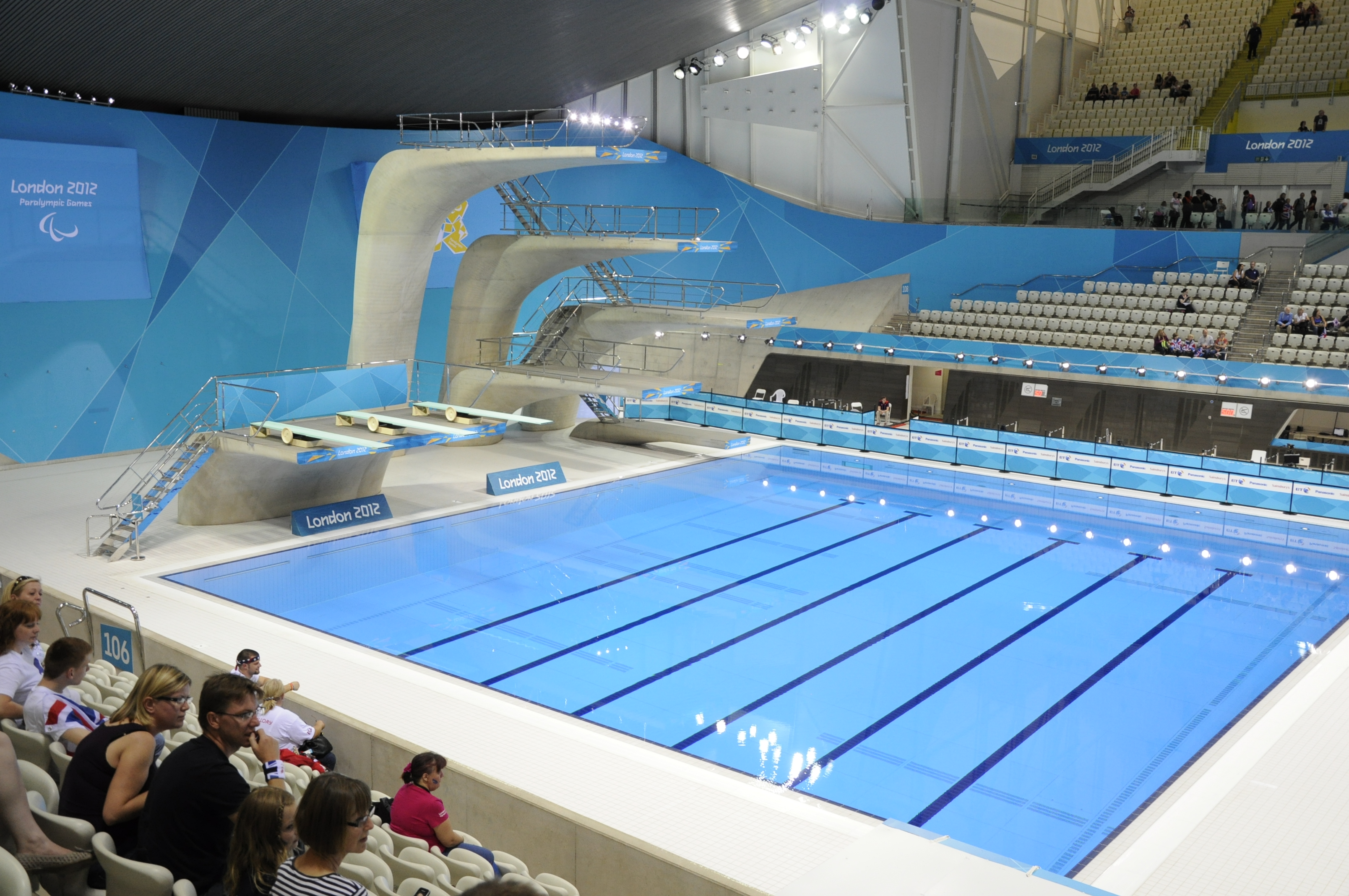 Paralympics 2012 - London Aquatics Centre.